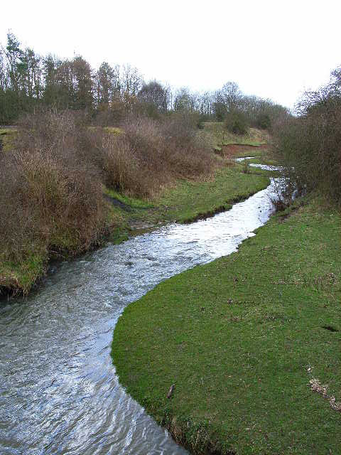 The River Deerness at Esh Winning. Looking upstream